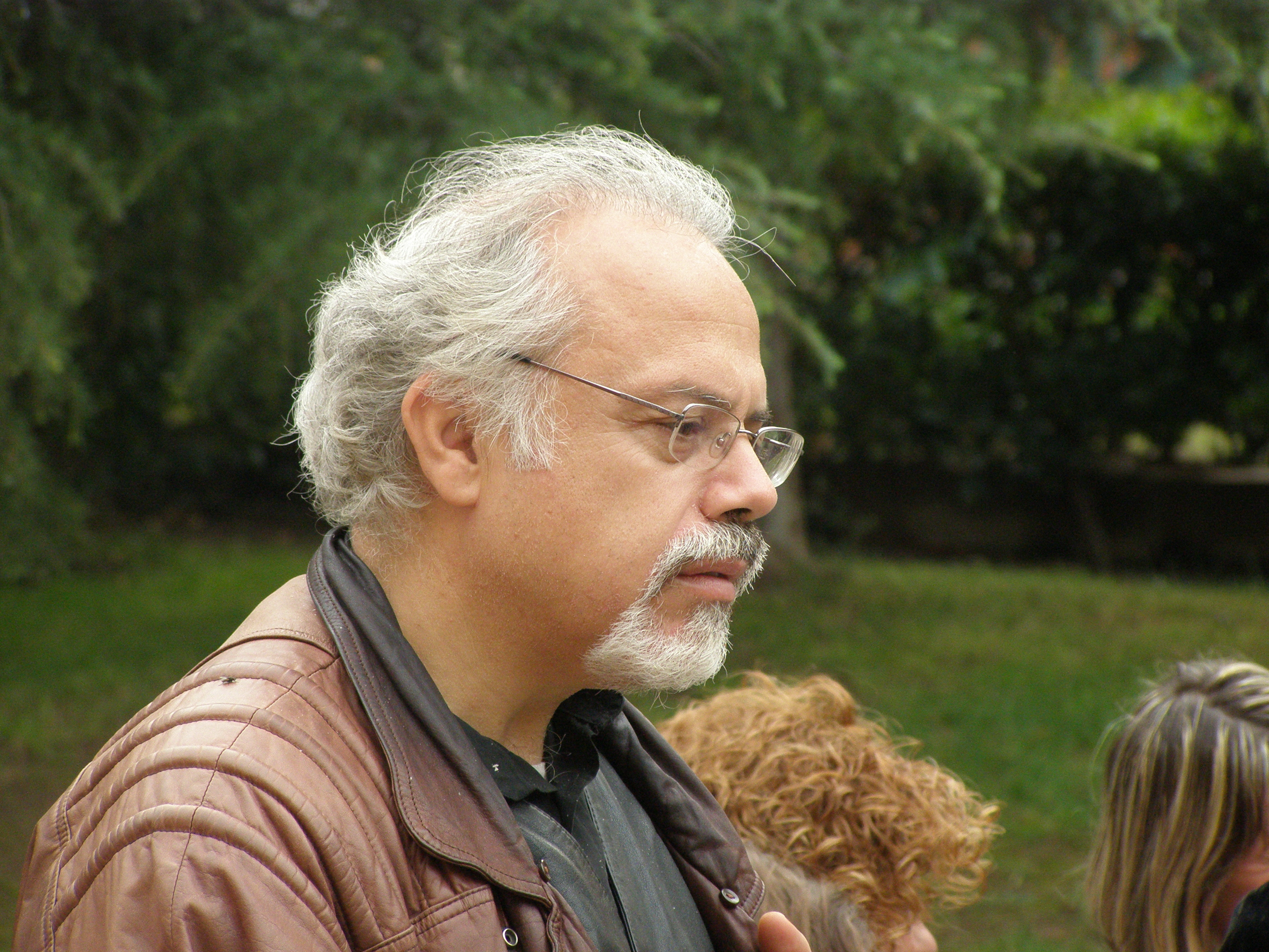 Michalis Tremopoulos, member of the Ecologist Greens party (Greece), member of the European Parliament since 2009.